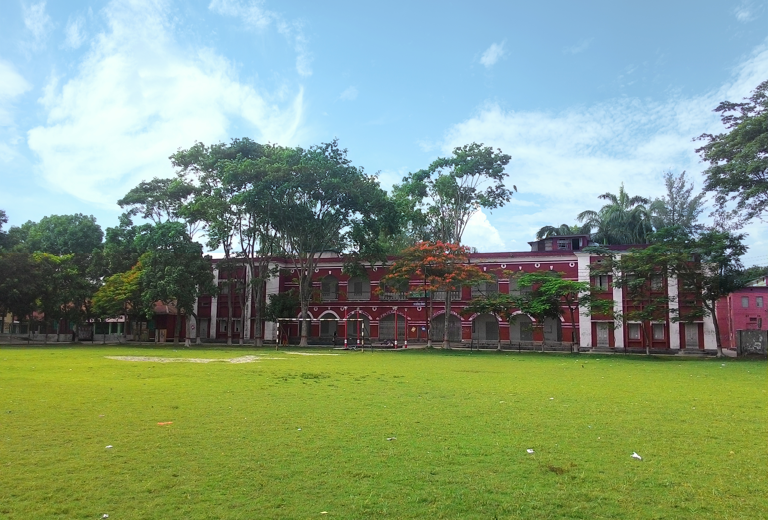 Govt. BM College abbrevieted as Brojomohun College, located in Barisal, Bangladesh. It is one of the oldest institutions of higher education in Bengal established in 1889.